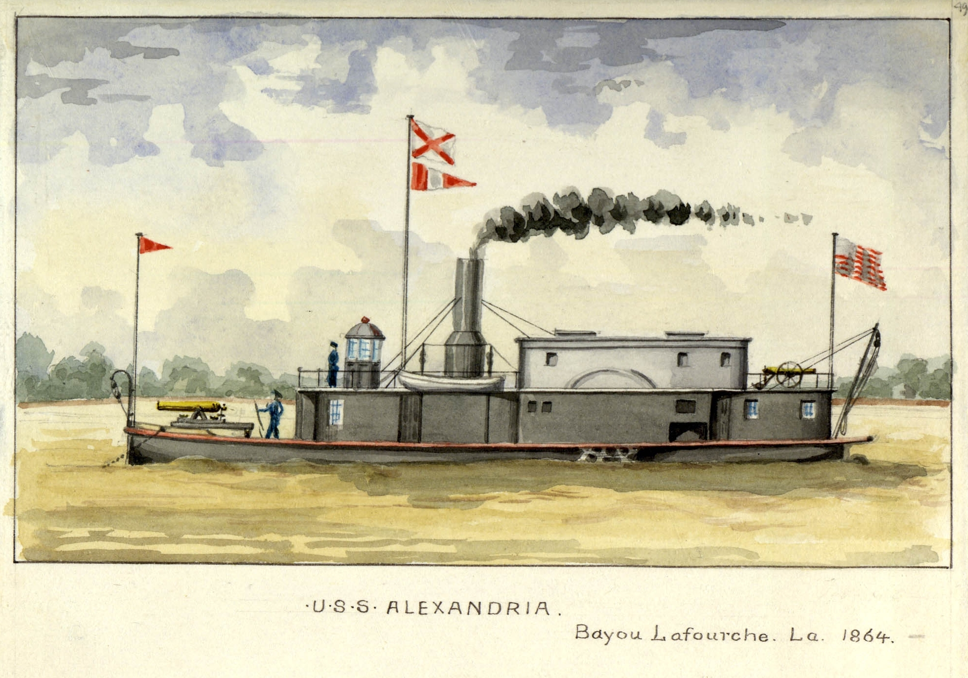 USS Alexandria by Ens. D. M. N. Stouffer, ca. 1864-65, Library of Congress